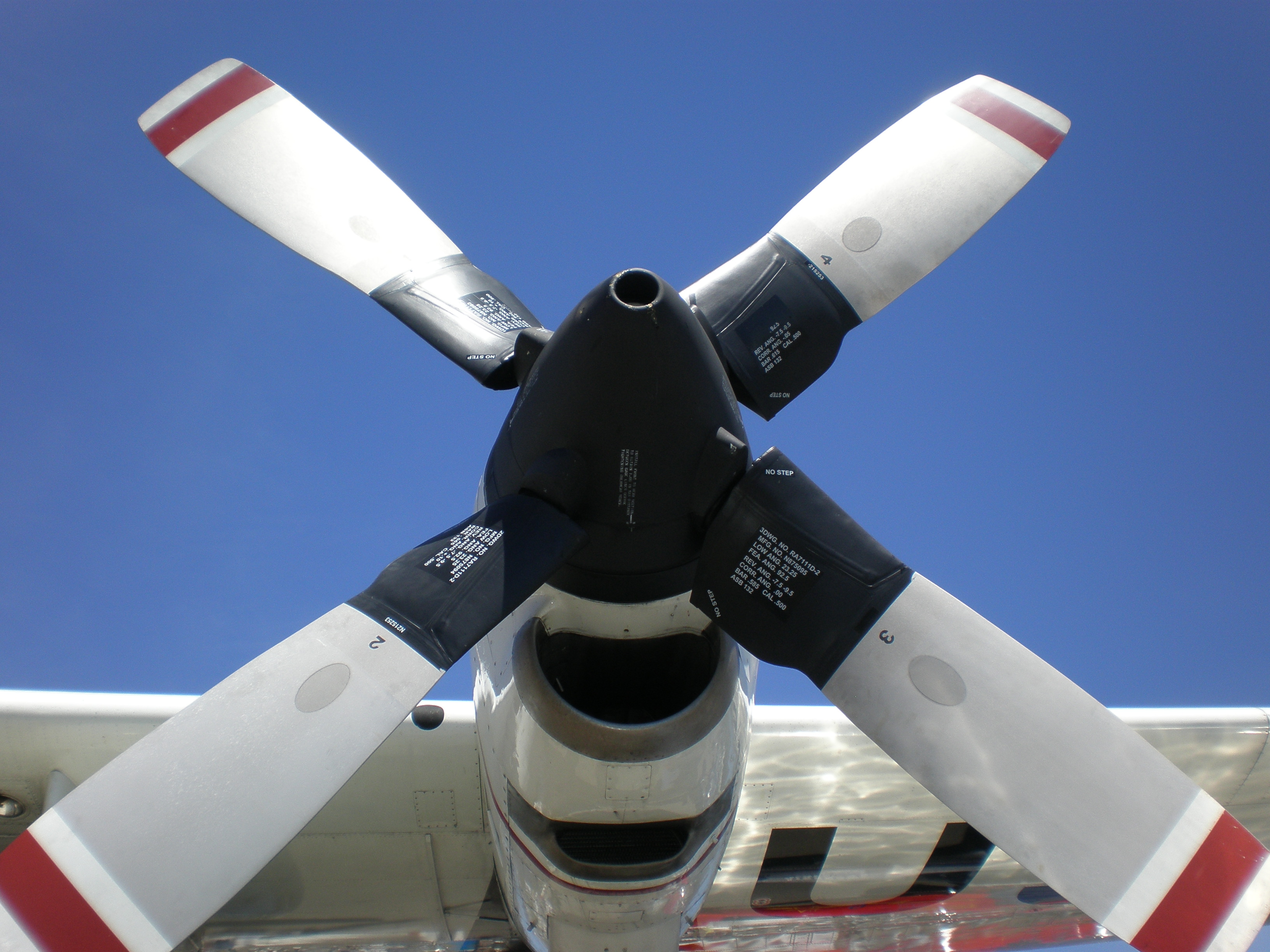 One of the port turboprops of US Coast Guard Lockheed HC-130H Hercules 1704 at the Pacific Coast Dream Machines vehicle show at the Half Moon Bay Airport in Half Moon Bay, California. The aircraft is based out of CGAS Sacramento, California.